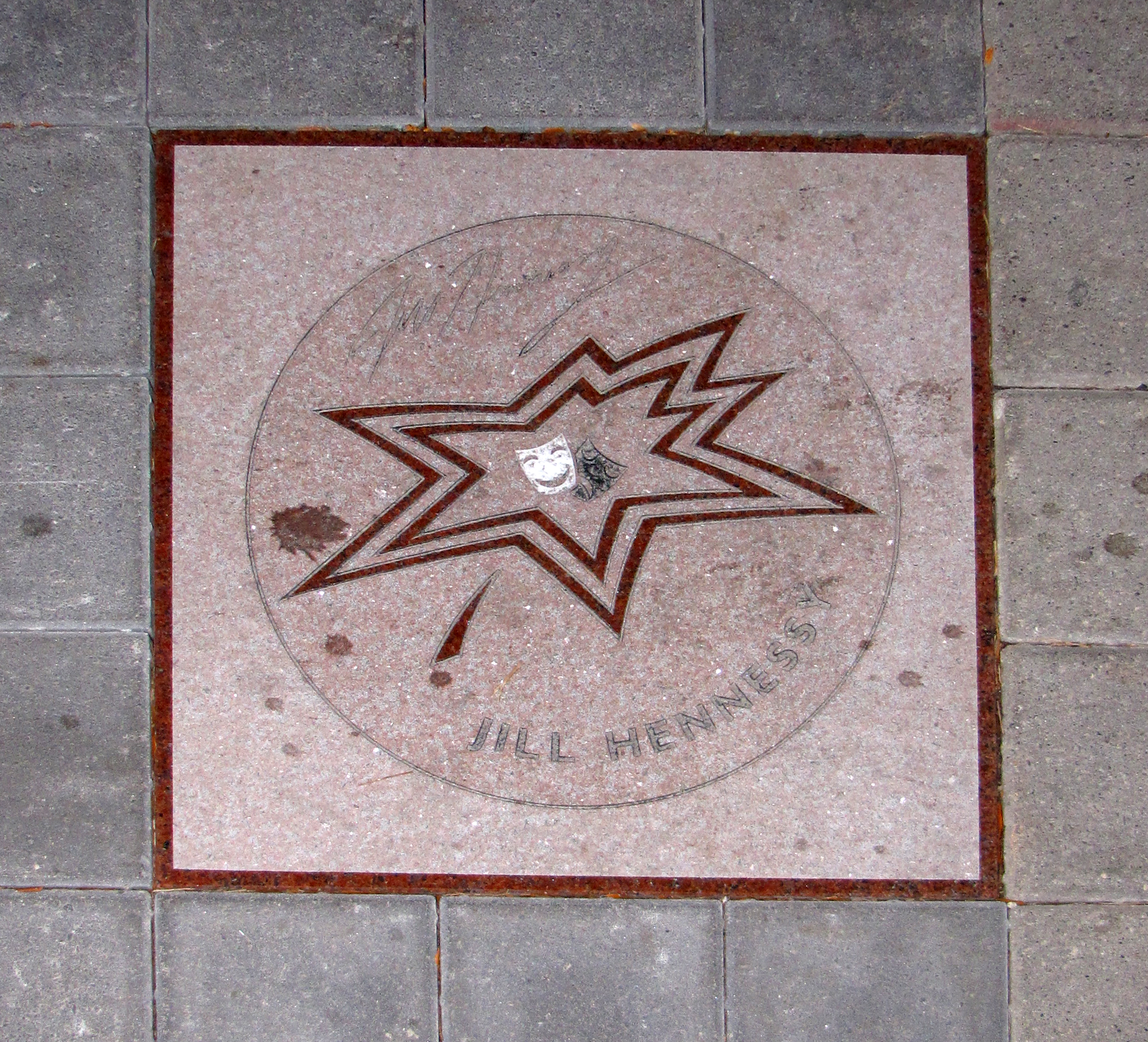 Jill Hennessy's star on Canada's Walk of Fame